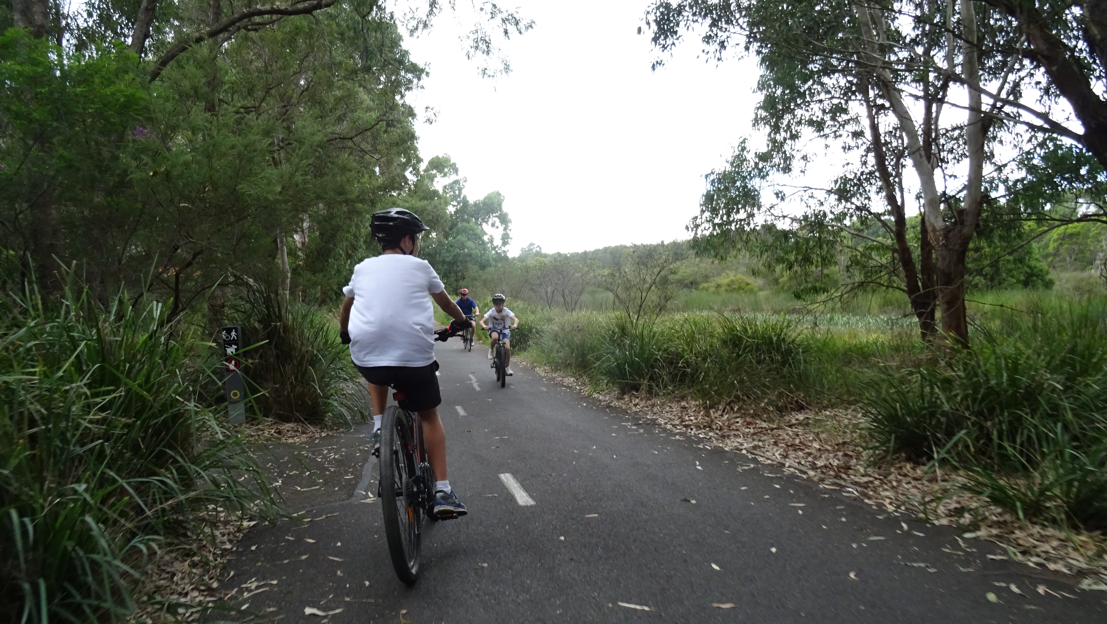 Louise Savage Cycleway near Haslams Creek